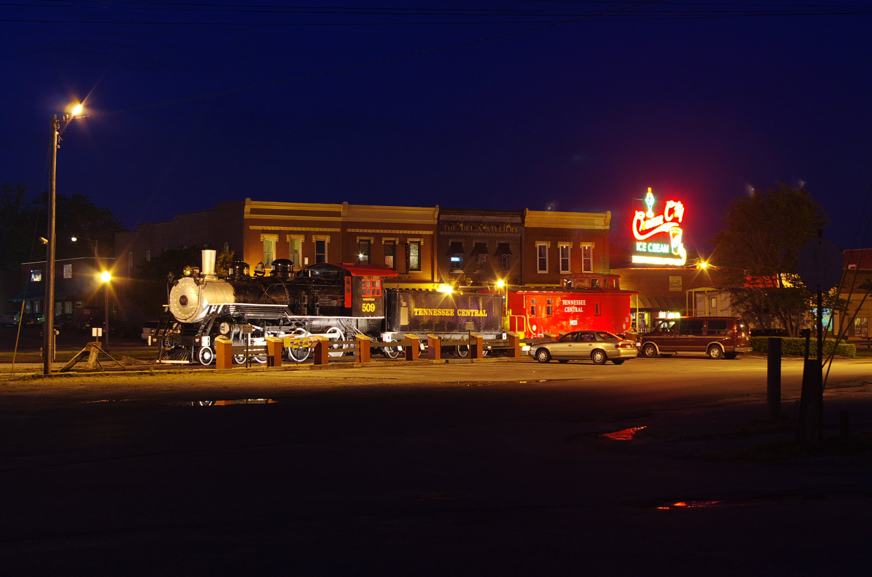 Cookeville Depot Museum and Cream City block in Cookeville, Tennessee, United States.